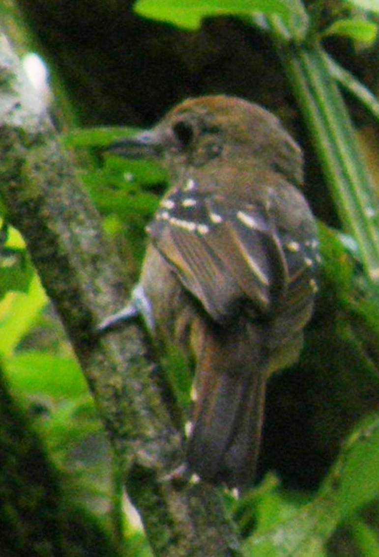 This female Western Slaty Antshrike (Thamnophilus atrinucha) was the first of many, many Western Slaty Antshrikes we saw today. The male looks similar, but is gray, and has a catbird-like darker patch on the head. Photo from Panama.